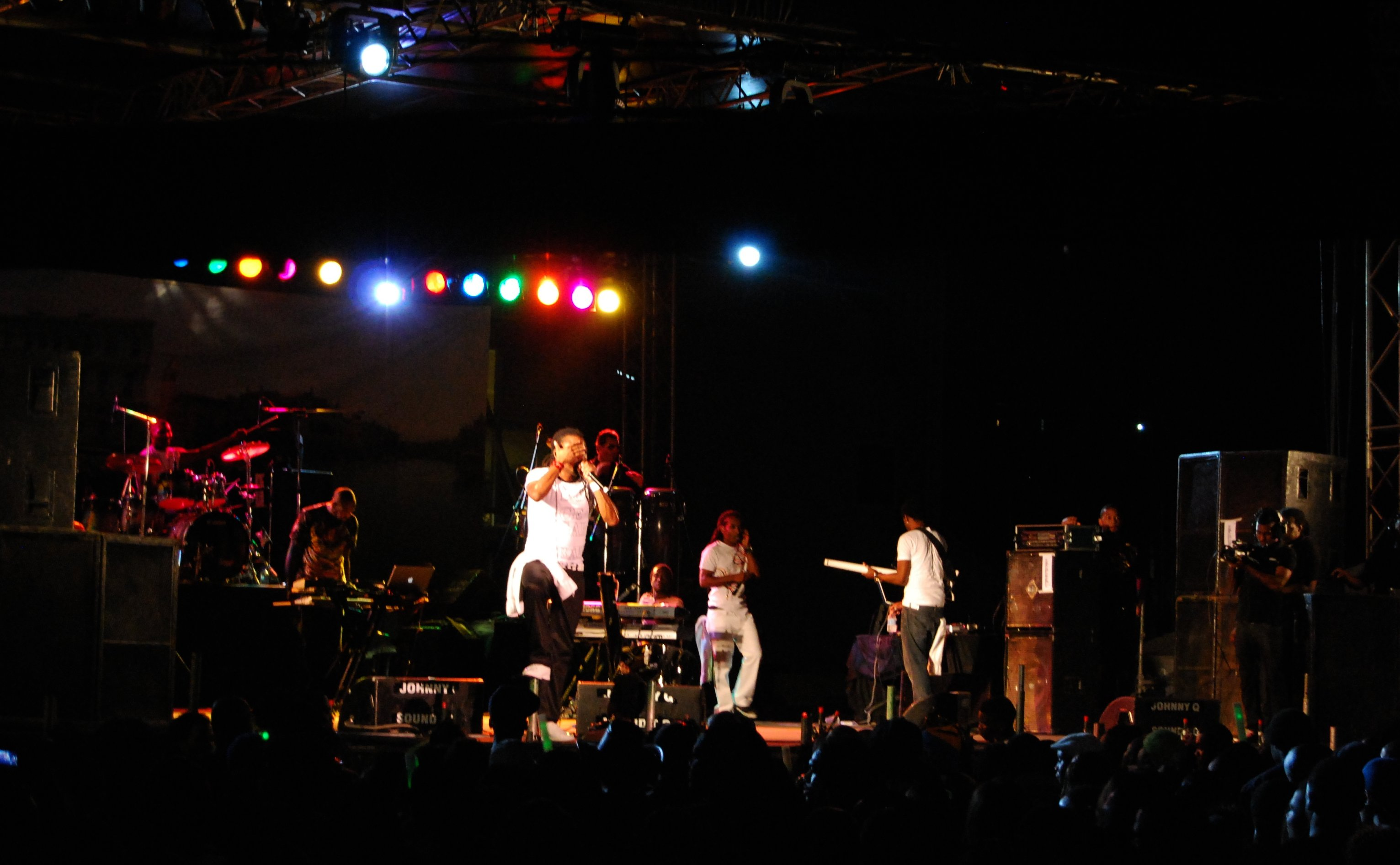 Photo of some people on a stage.